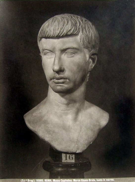 Carlo Brogi (1850-1925) - "Rome - Capituline Museum - Marcus Junius Brutus, marble bust". Catalogue # 16585.